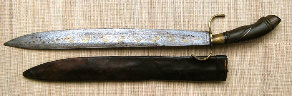 The blade is a late-19th century Filipino sword, believed to have been used by an officer of the Katipunan, during the 1896-1898 Philippine Revolution. The ornate brass-inlays on blade are remarkable. The peened tang on the butt end of the hilt points to a Luzon origin of the sword. The leather scabbard further points to the sword's Luzon provenance (Visayan and Mindanao scabbards are almost always made out of wood). It will also be noted that the leather scabbard has shrunk significantly over the years. The sword came from American collectors, but it is now back in the Philippines. Overall length: 573 mm (22.6 inches); Blade length: 422 mm (16.6 inches); Maximum blade thickness: 9 mm (3/8 inch) Other uploaded materials by the same author are here: (a) Luzon weapons; (b) Visayan weapons; (c) Moro weapons; and (d) Lumad (non-Moro Mindanao) weapons Details of the sword can be seen here and here. Category:Weapons of the Luzon people of the Philippines